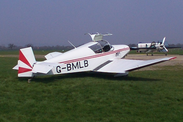 SAN Jodel D120A Paris-Nice at Headcorn Aerodrome, England; Year of Manufacture: 1965